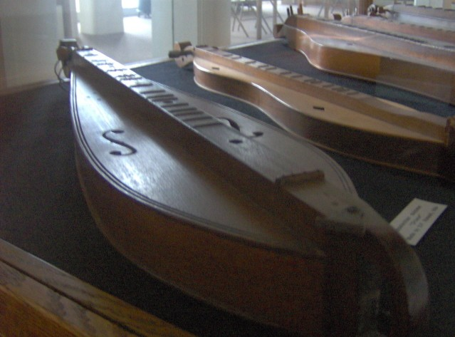 Fretted dulcimer, usually called the "Appalachian" or "mountain" dulcimer, on display in the Bryan Fine Arts Building at Tennessee Technological University in Cookeville, Tennessee, USA. This dulcimer is part of the Charles F. Bryan Folk Instrument Collection. Fretted dulcimers are actually modified zithers rather than true dulcimers.